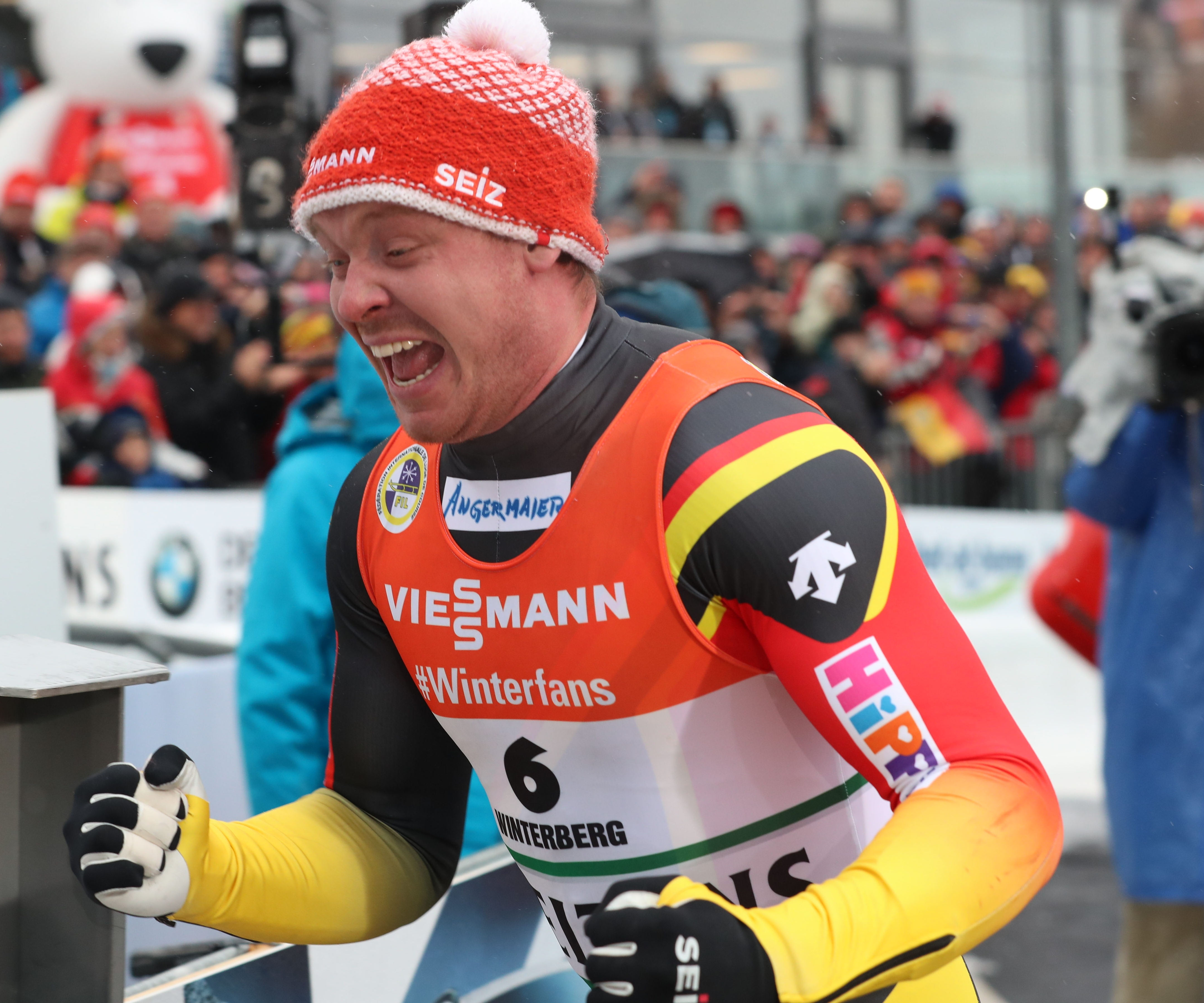 Men's race at the FIL World Luge Championships 2019 in Winterberg